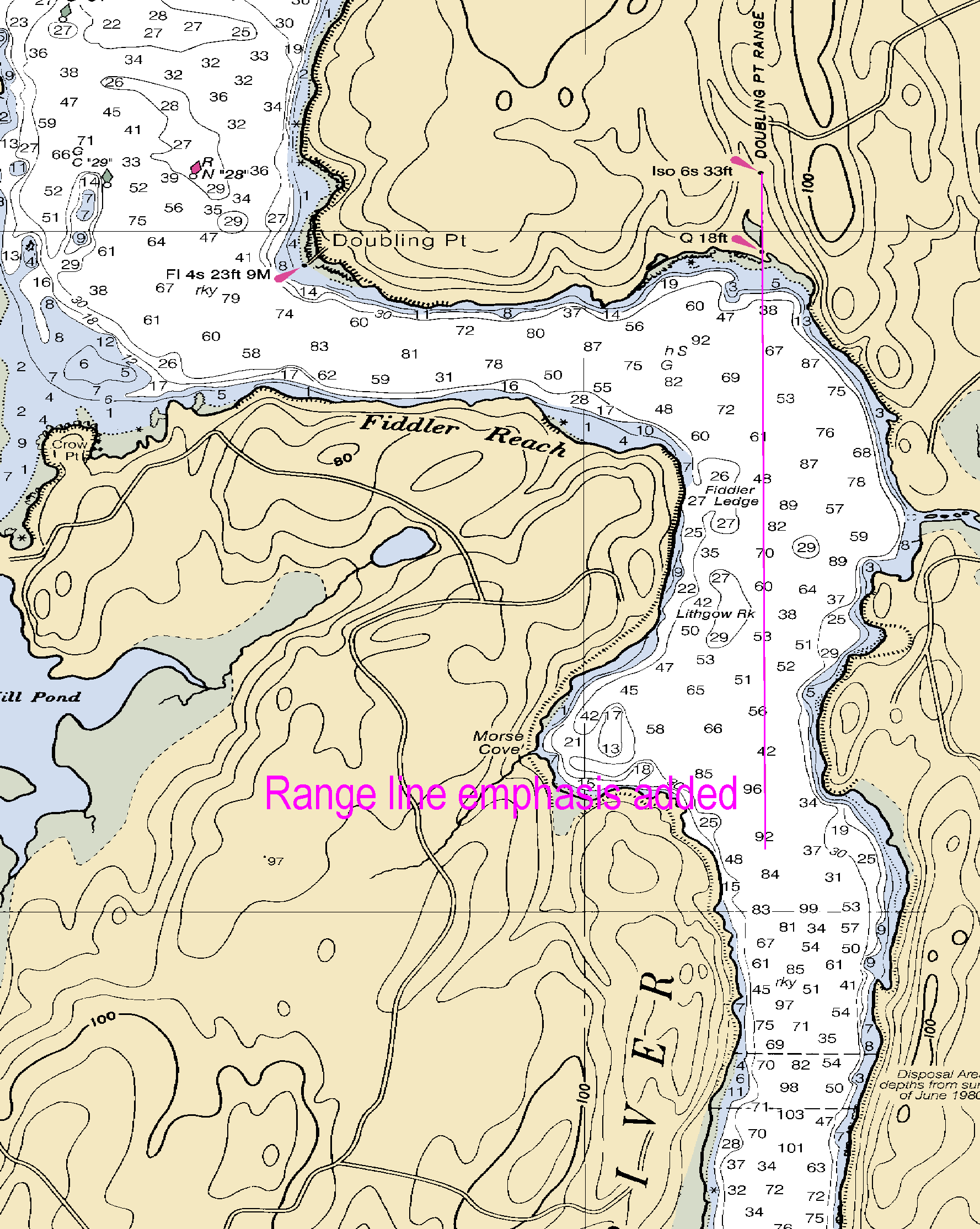 Detail from NOAA Chart 13296 showing the Doubling Point Light and Doubling Point Range Lights on the Kennebec River, Maine, USA. The range line emphasis did not appear on the original chart.